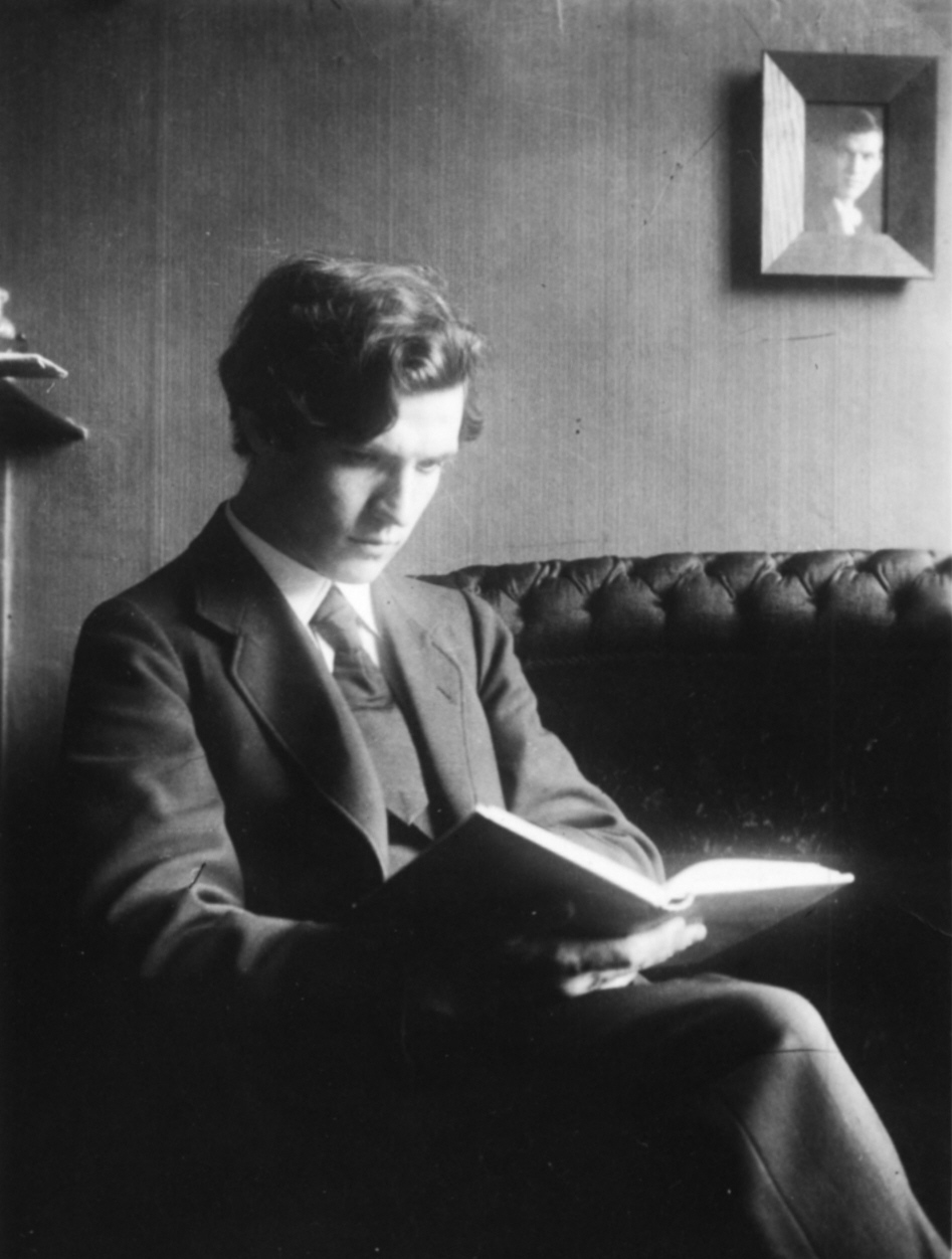 Gerard Bunk in 1910